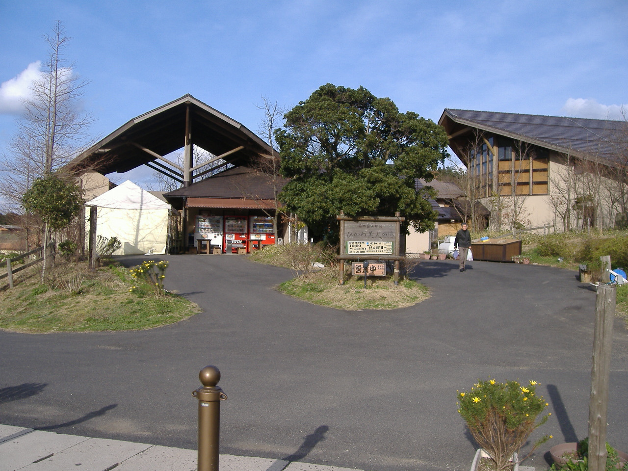 Onsen "Izumo Irisuno oka-Hikawa Bijin no yu" (Shimane, Japan)